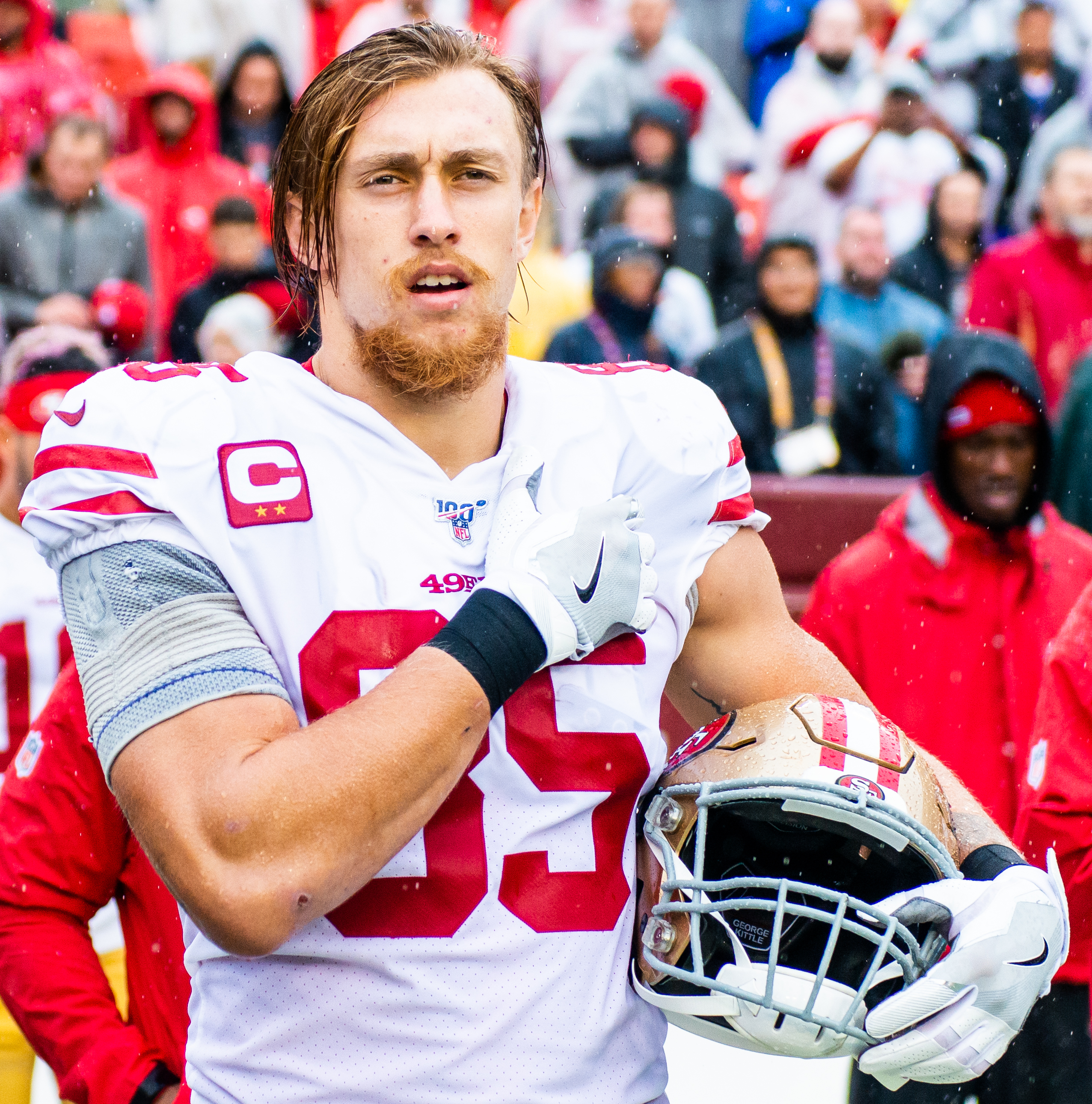 In 2019